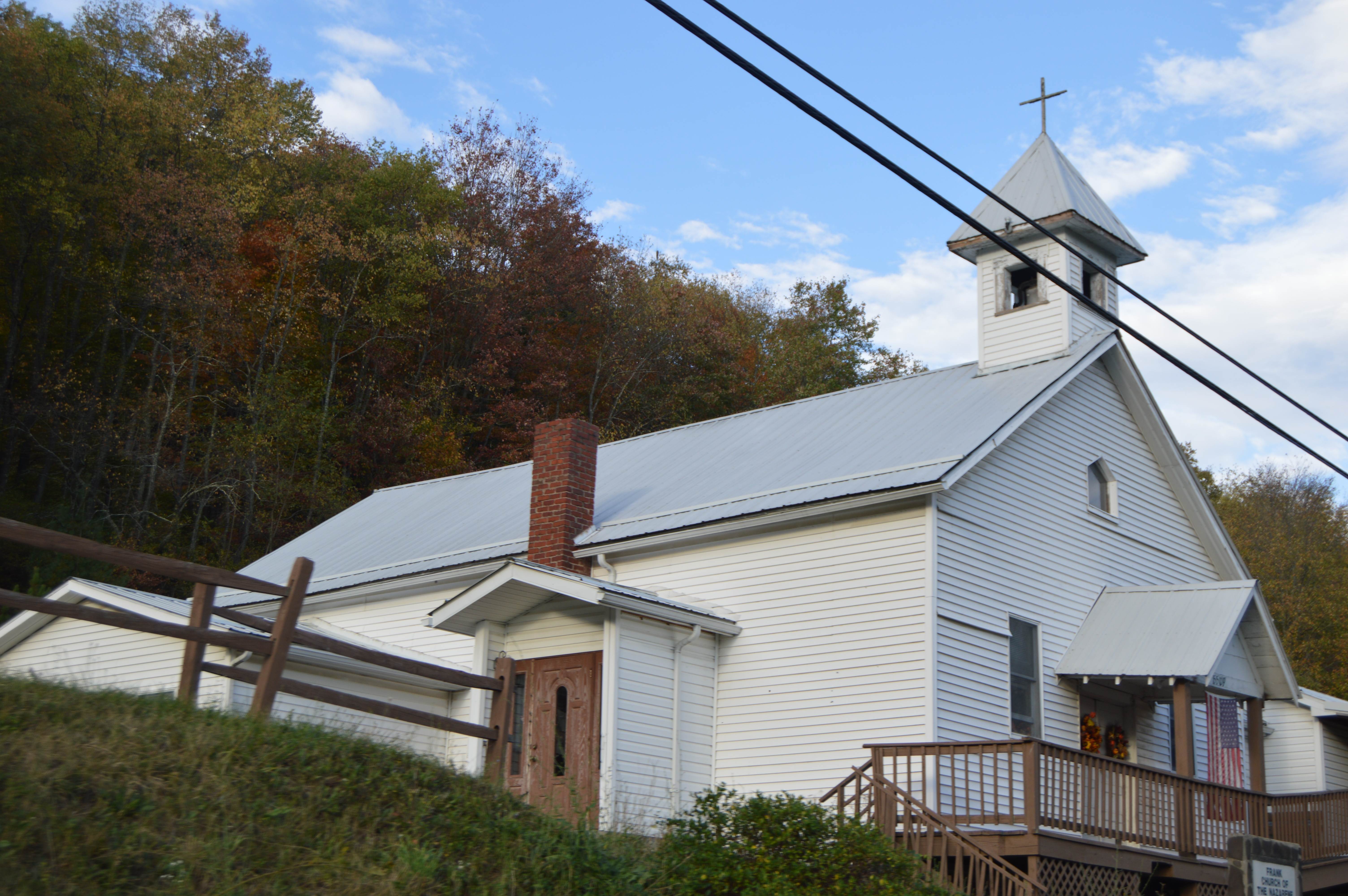 Western side and front of the Frank Nazarene Church, located at 5509 Staunton-Parkersville Turnpike (U.S. Route 250/West Virginia Route 92) at Frank in Pocahontas County, West Virginia, United States.